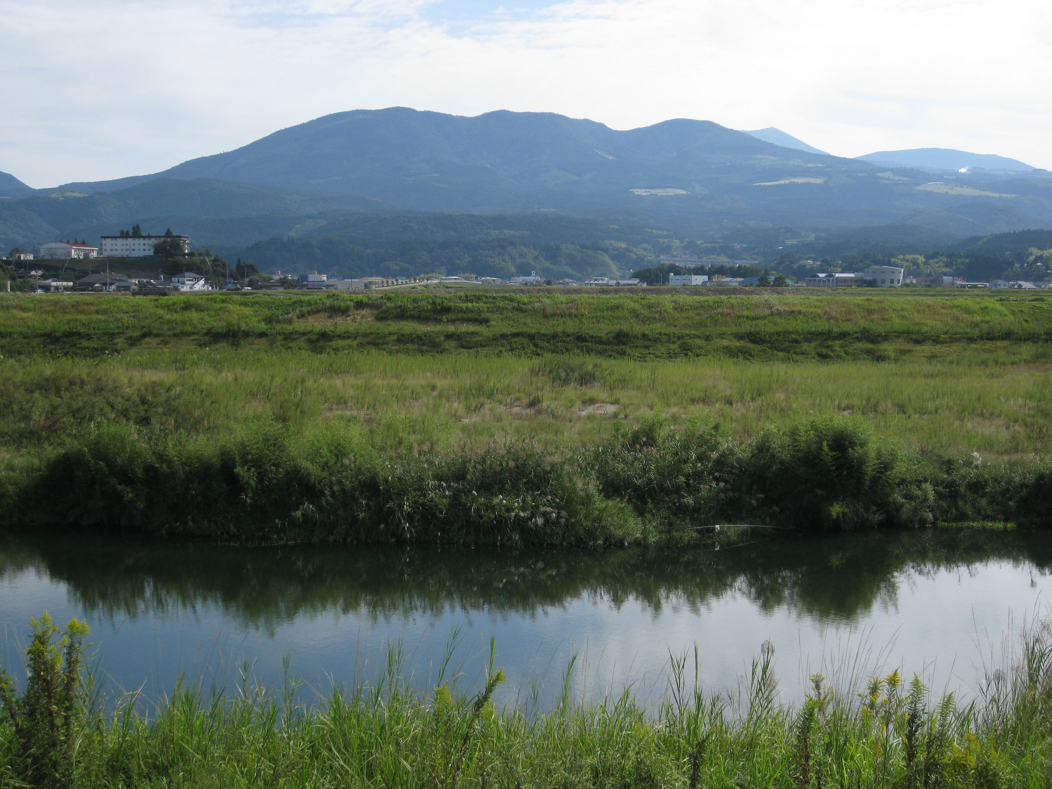 Mt. Kurinodake and Sendaigawa River in Kagoshima, Japan